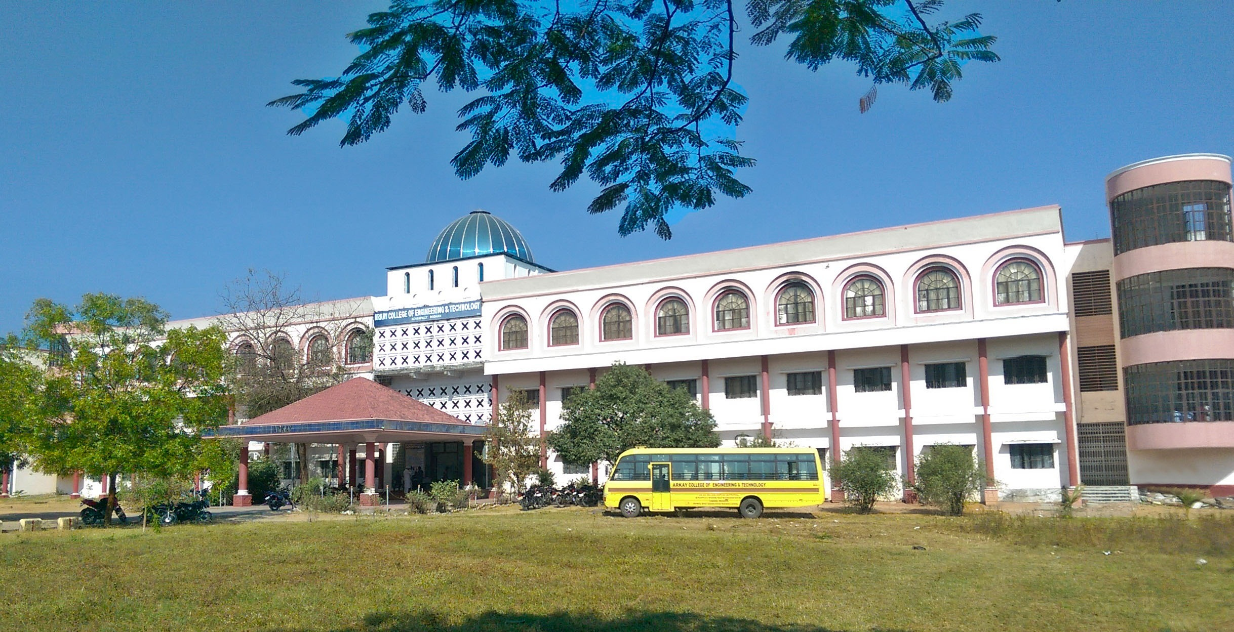 Arkay College of Engineering and Technology, Bodhan Town, Nizamabad, India